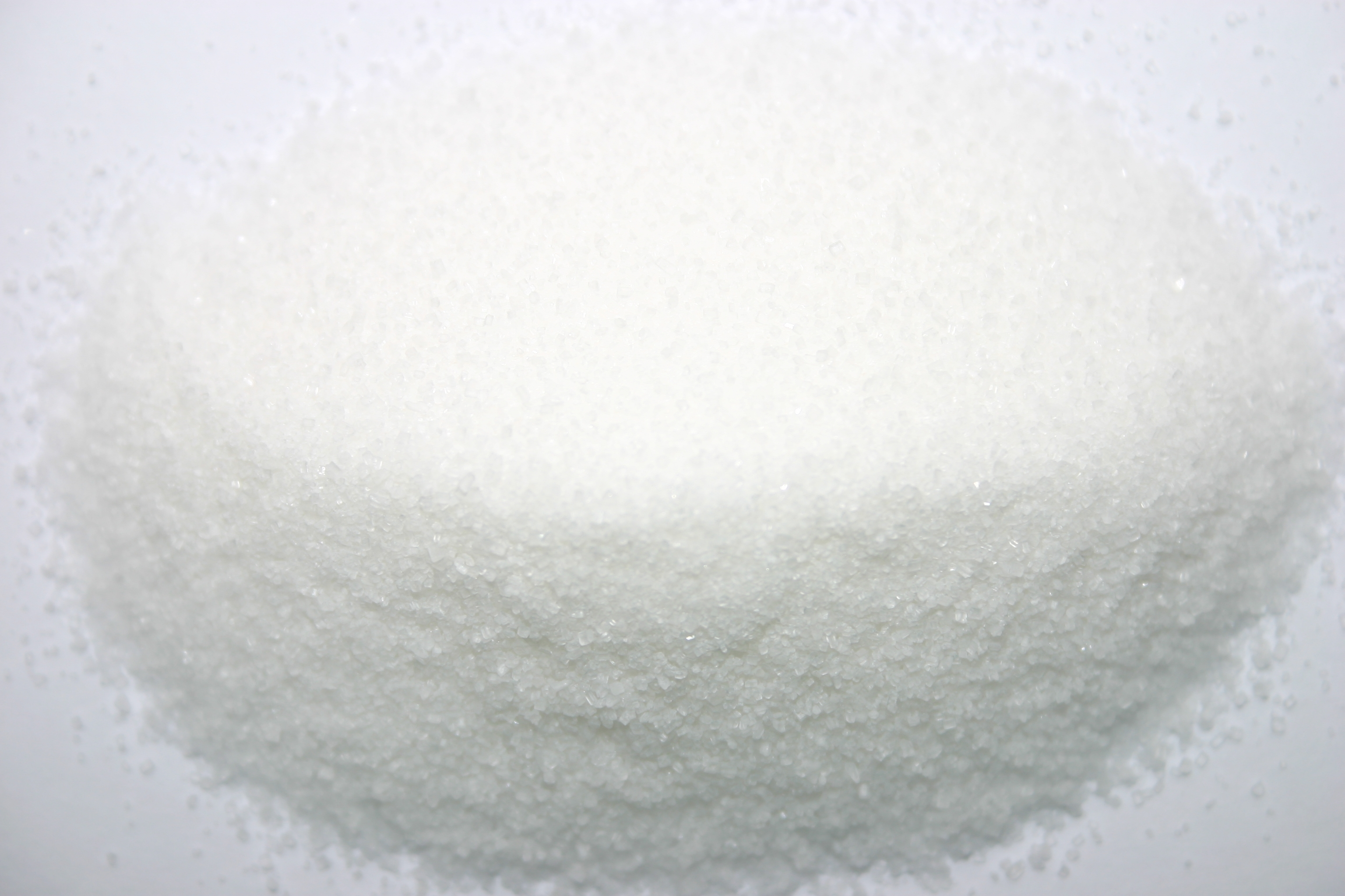 white cane sugar